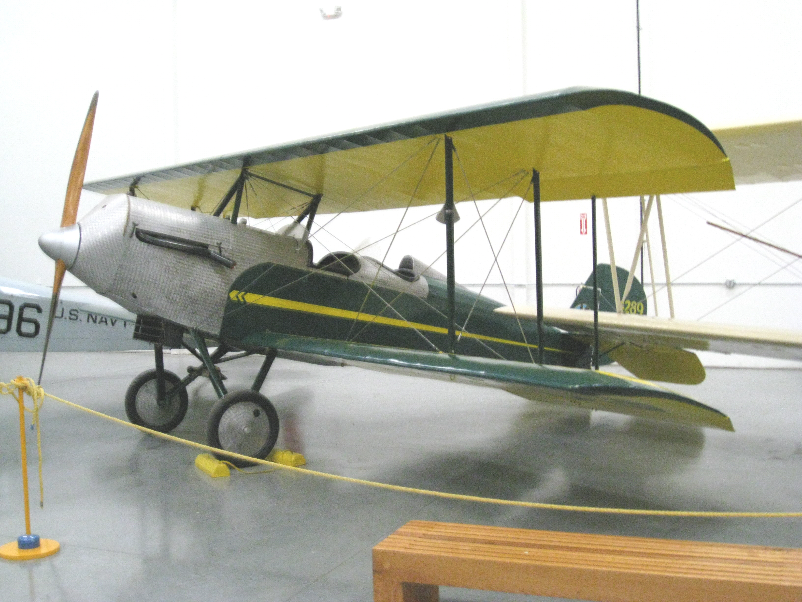 American Eagle A-101 biplane of 1928 at Yanks Air Museum, Chino, California